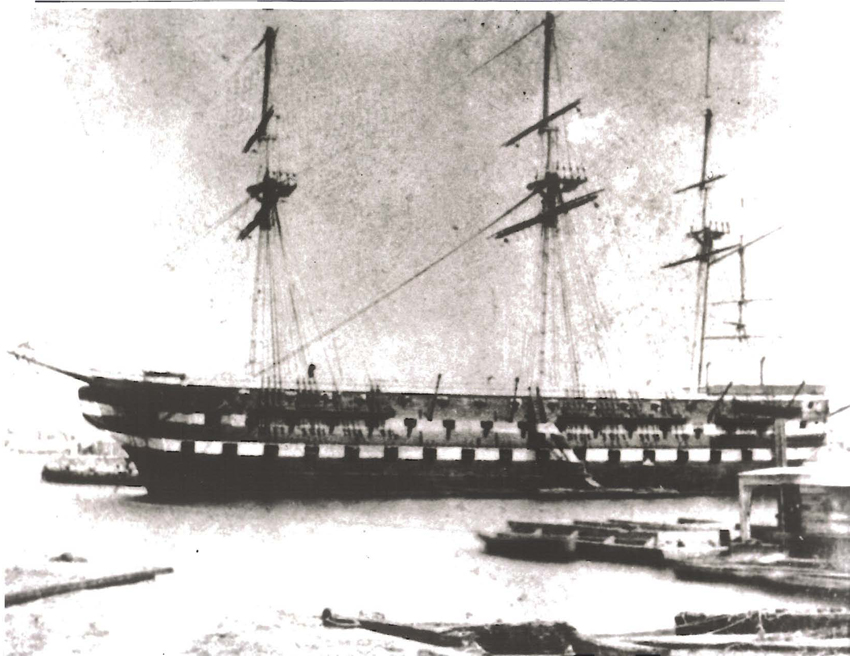 USS North Carolina from the Naval Historical Center in Washington, D.C.